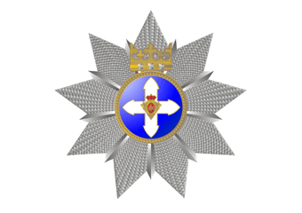 Order of Vytautas the Great